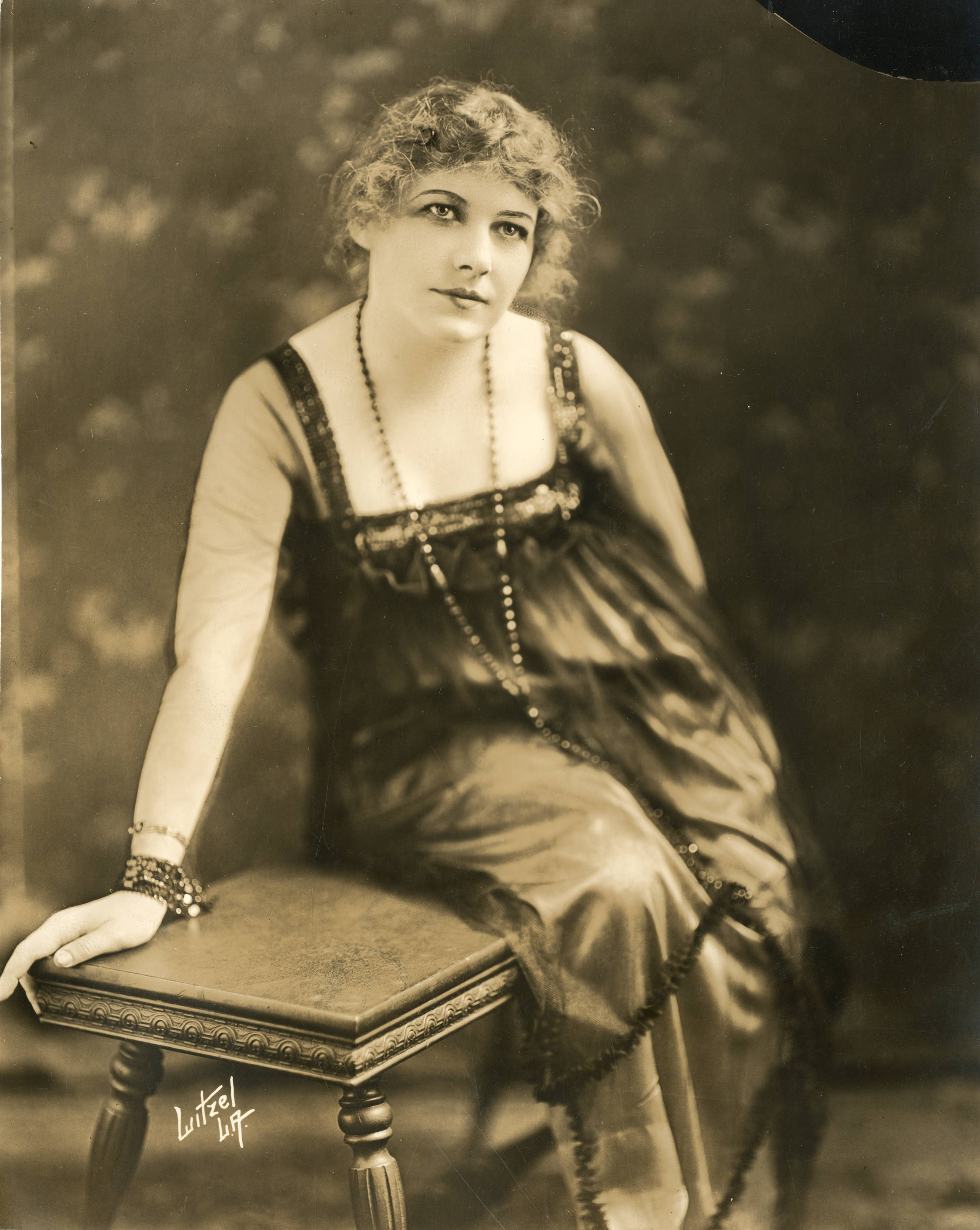 Margaret Thompson, silent film actress Subjects: actresses